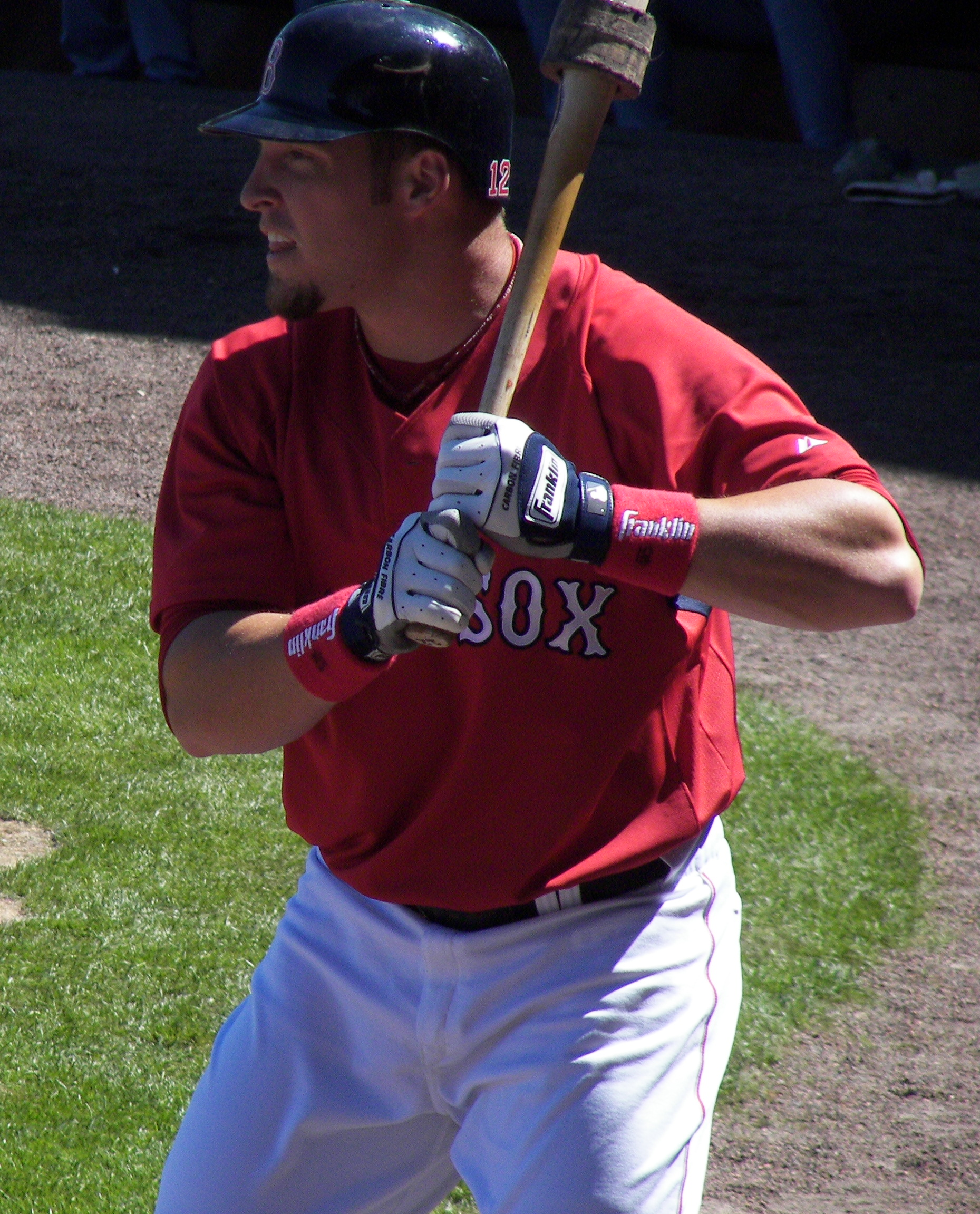 Boston Red Sox player Eric Hinske on-deck during a Red Sox/Los Angeles Dodgers spring training game at City of Palms Park in Fort Myers, Florida.